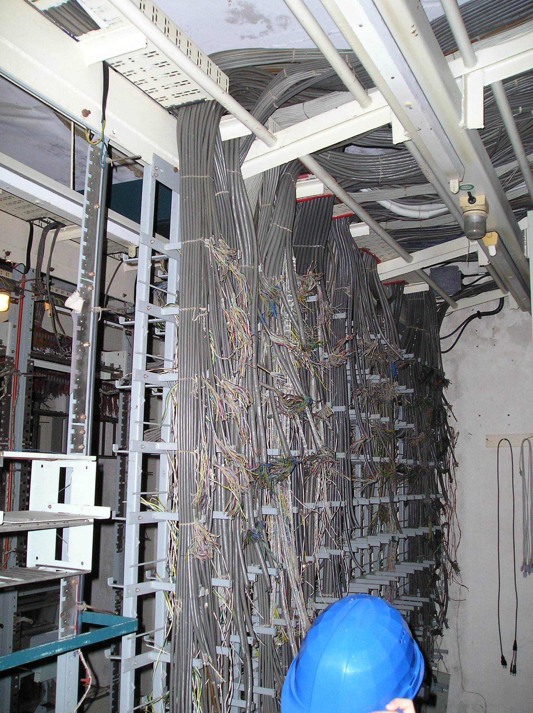 Object 17/5001 shelter in Prenden, Germany - Telephone exchange